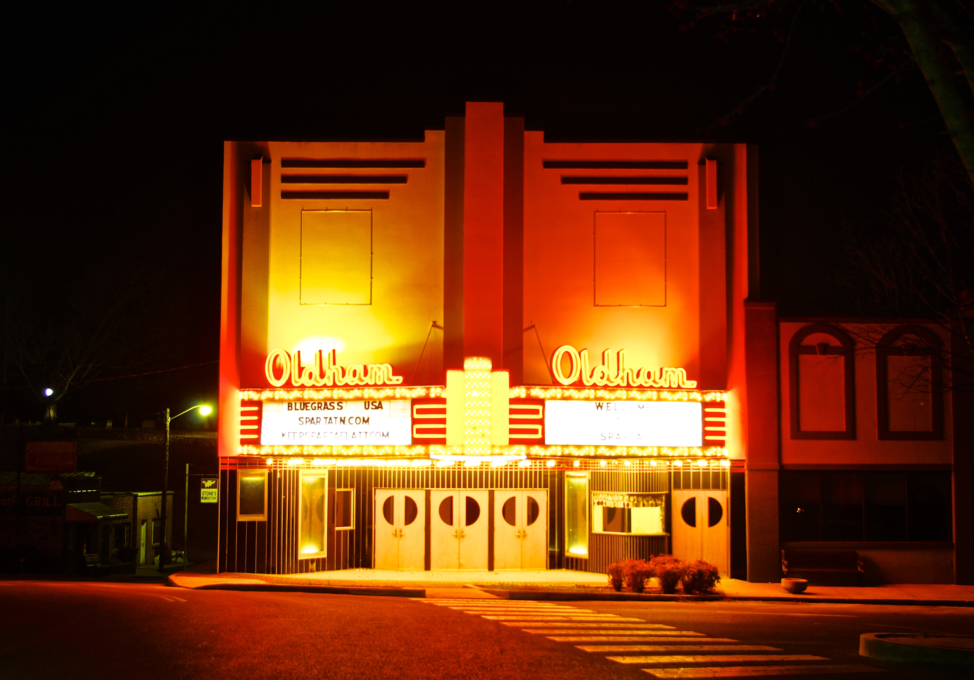 The Oldham Theater in Sparta, Tennessee, United States.